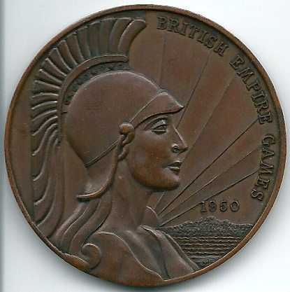 British Empire Games - 1950 Medal. Scanned image